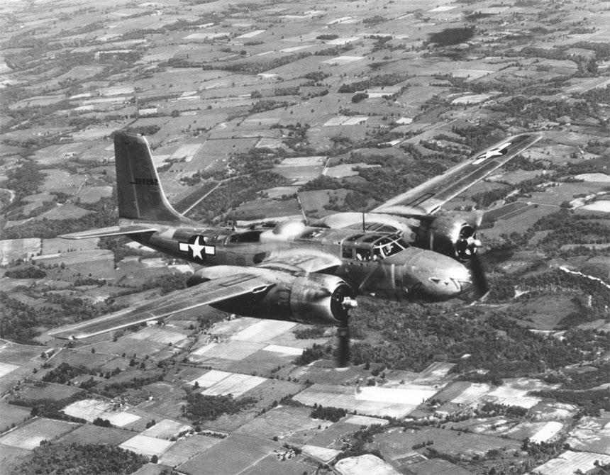 A-26 Invader in flight .75 right